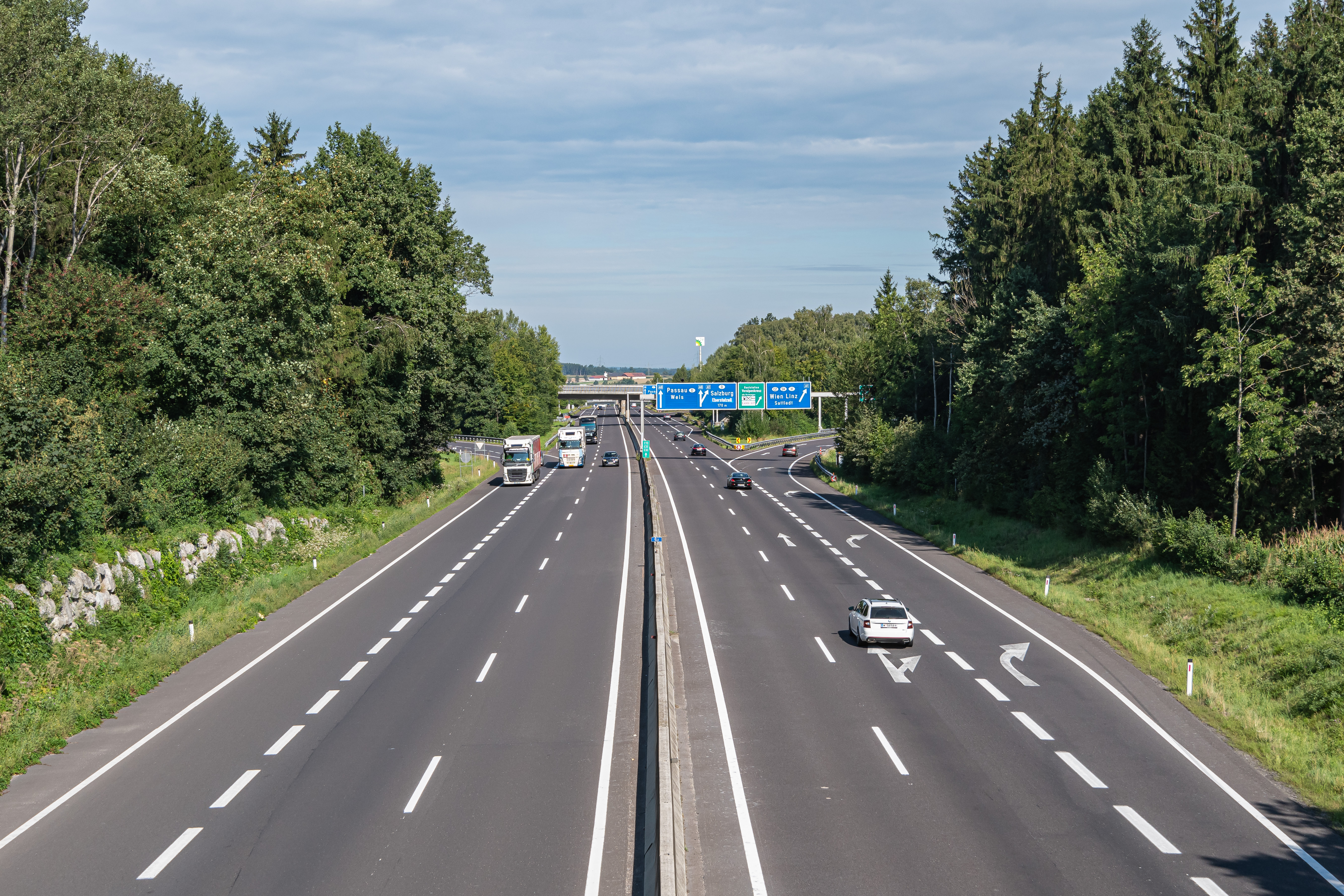 At the junction Voralpenkreuz the austria motorway Pyhrnautobahn A 9 merges into Innkreisautobahn A 8. 'Q545000' (Q545000)